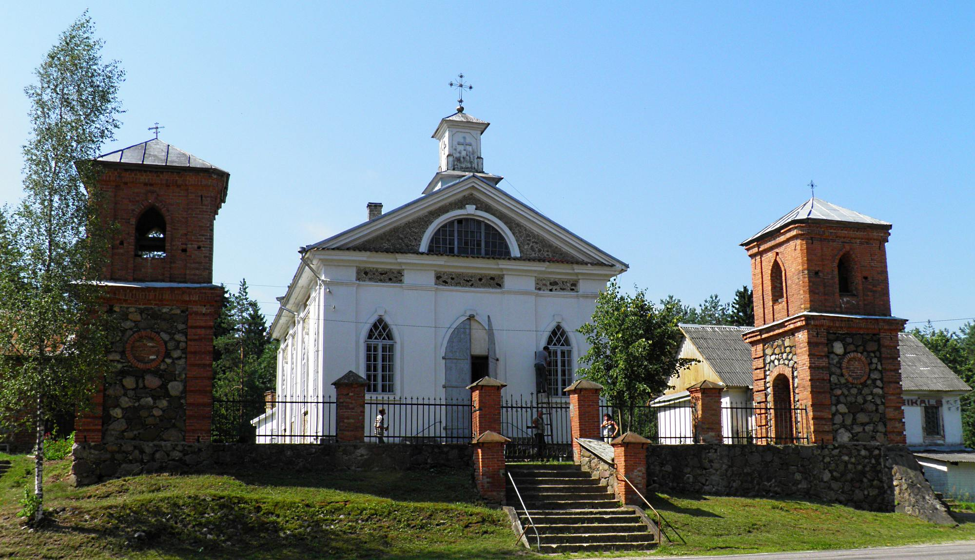 Catholic church in BorovkaLatviešu: Borovkas Dievmātes Romas katoļu baznīca